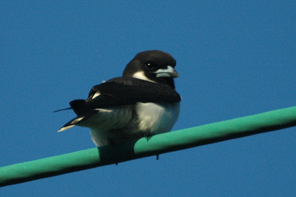 Fiji Woodswallow, Raintree Lodge, Suva, Fiji